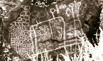 Coso petroglyphs rock art in the Archaic abstract curvilinear style — at the Coso Rock Art District National Historic Landmark, in the Mojave Desert and Inyo County, California. More than 250,000 pre-Columbian rock art petroglyphs are located on 36,000 acres of the Coso Range, within the Naval Air Weapons Station China Lake.